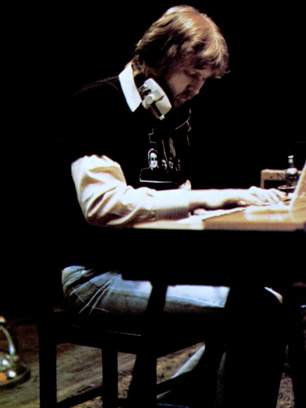 Trade ad for Harry Nilsson's single "Many Rivers To Cross". To better adapt it to his respective Wikipedia article, the ad was cropped and cleaned in a graphics editing program. The original can be viewed at the source below.